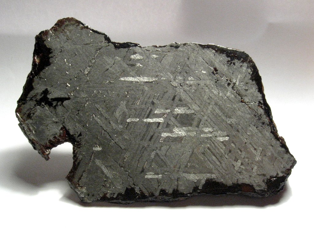 A 500g endcut from the Toluca iron meteorite (coarse octahedrite, class IA). Shown here is the cut, polished and etched face, displaying Widmanstätten Pattern.